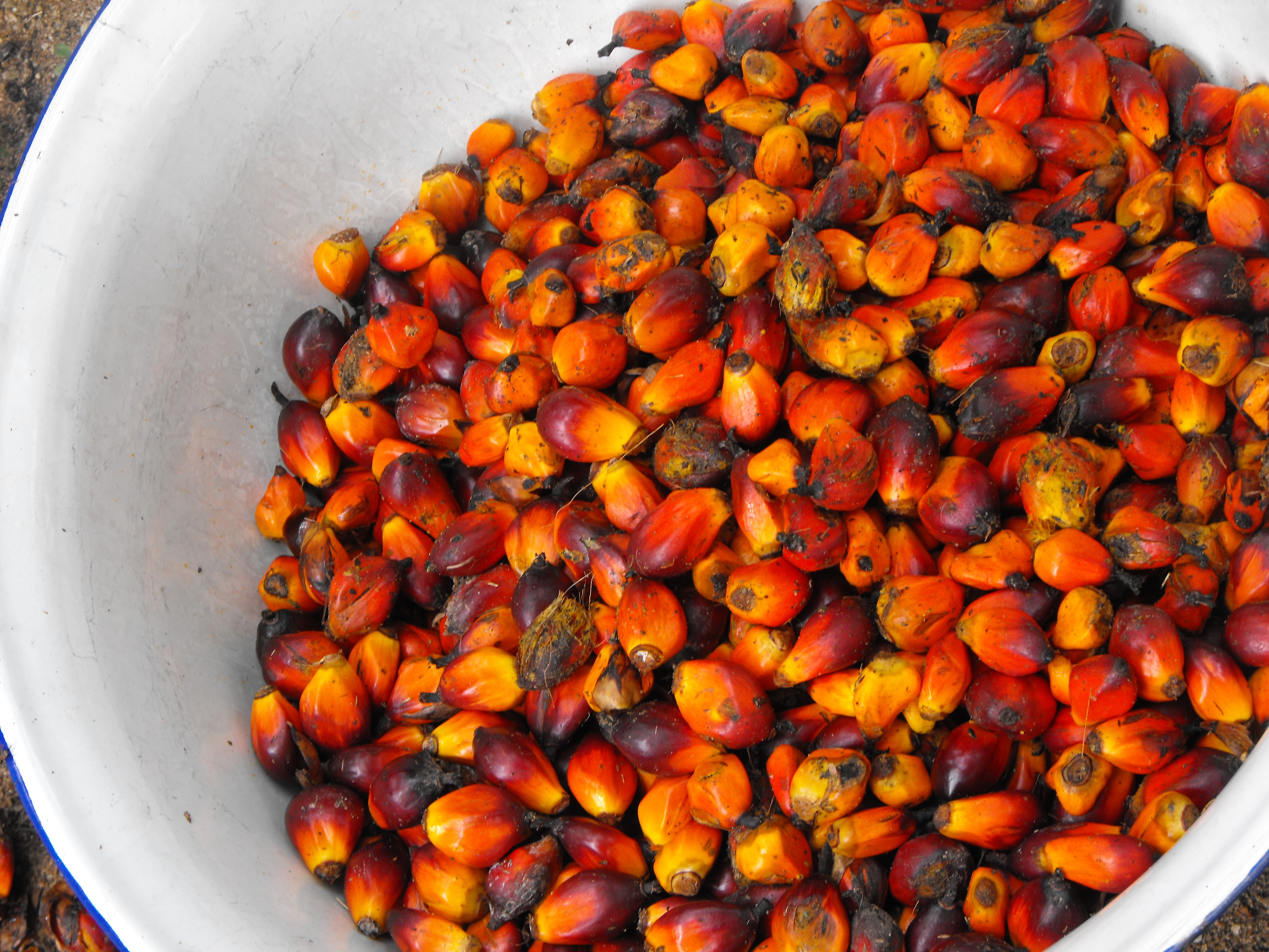 My eyes can feast on these beautiful beads for hours on end. This is an image of food from Nigeria